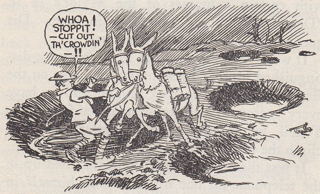 Cartoon by Canadian cartoonist Jimmy Frise from the book Battery Action! (1919) by Hugh R. Kay, George Magee, and F. A. MacLennan